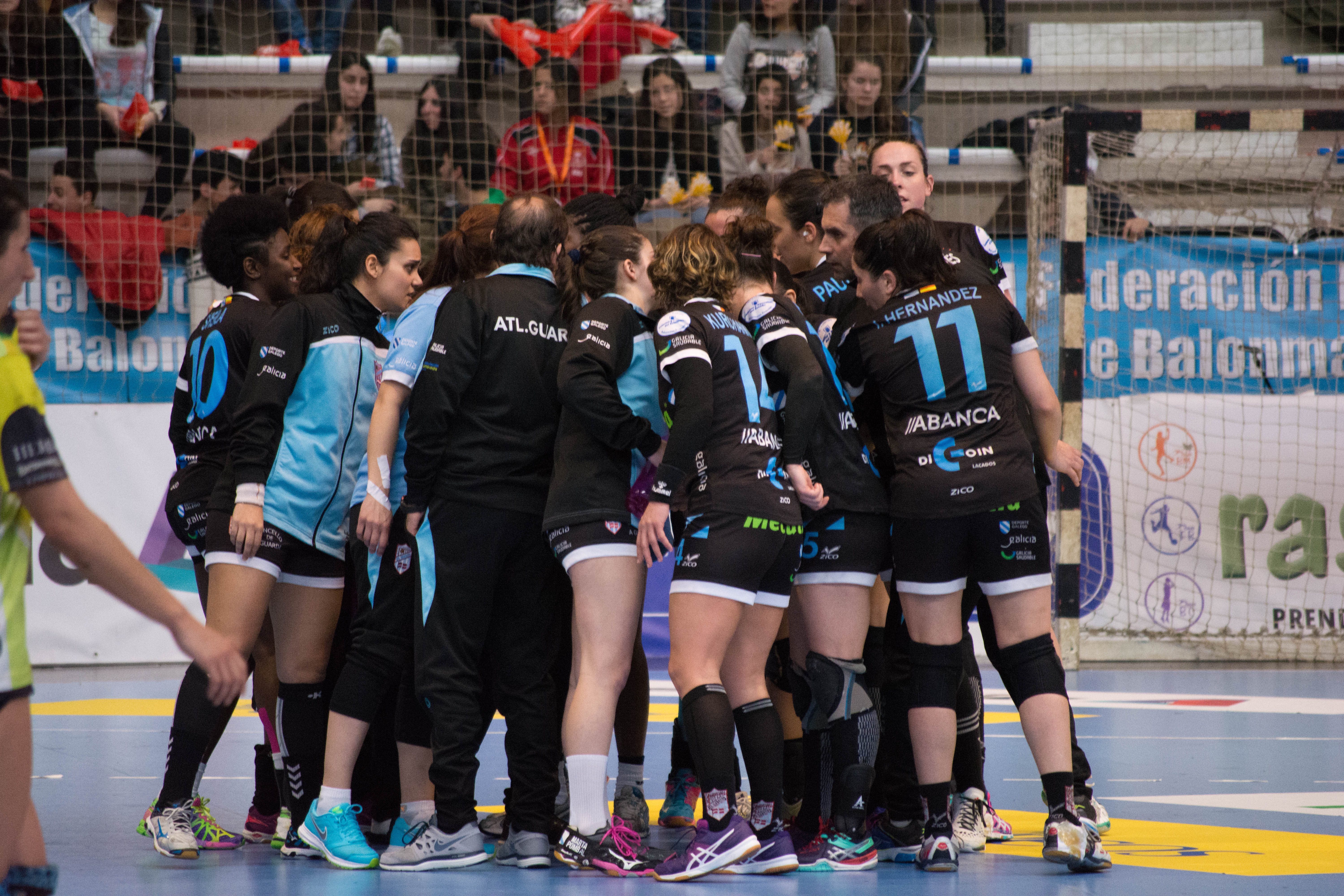 Copa De S. M. La Reina 2016 de Balonmano - O Porriño